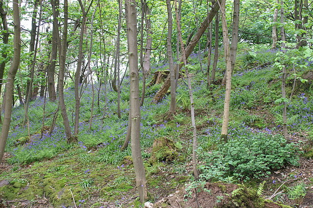 Bluebells on Abbey Craig In the woodland around the Wallace Monument.